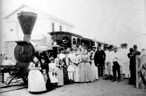 Spanish-Filipino civilians posing in front of the "Ferrocarril de Manila a Dagupan" (ca 1885)